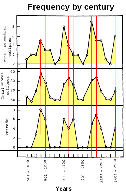 Graph of lunar eclipse frequencies